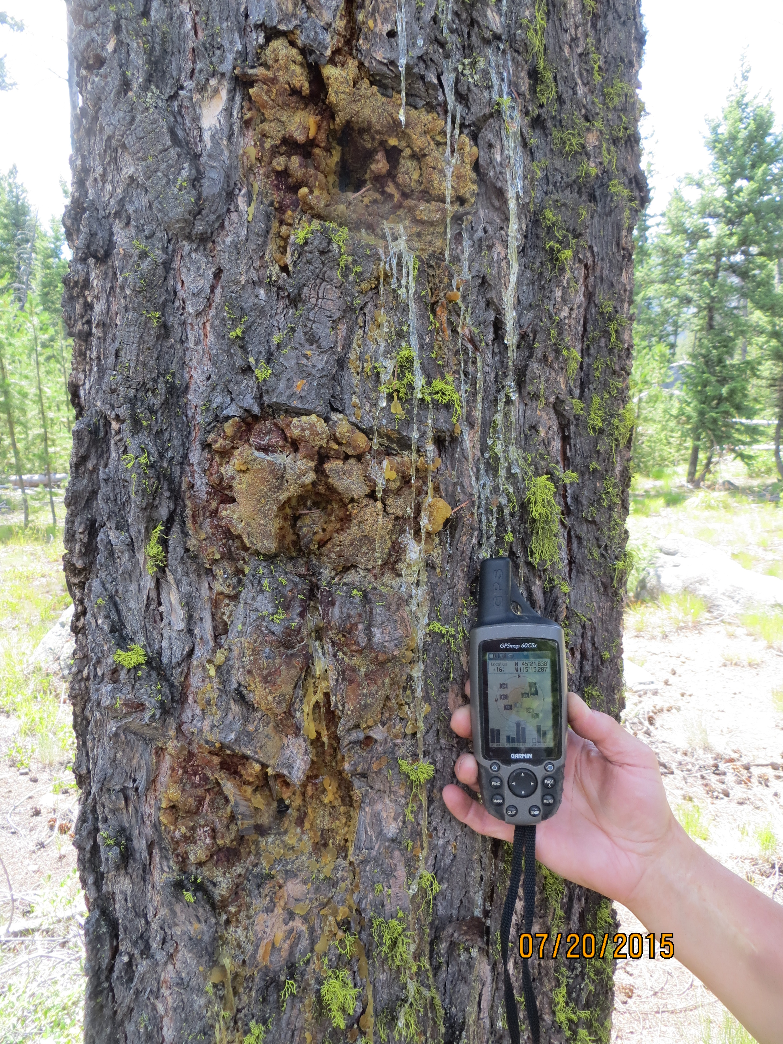 Tree marked with the distinctive "Three Blazes" of the Three Blaze Trail, taken by author in 2015.